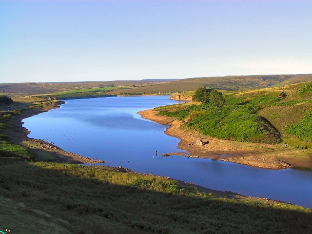 Winscar Reservoir. A beautiful Summer morning.......